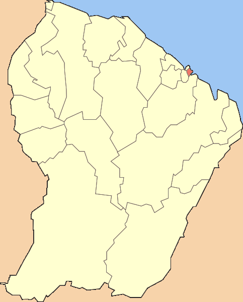 Made map myself.